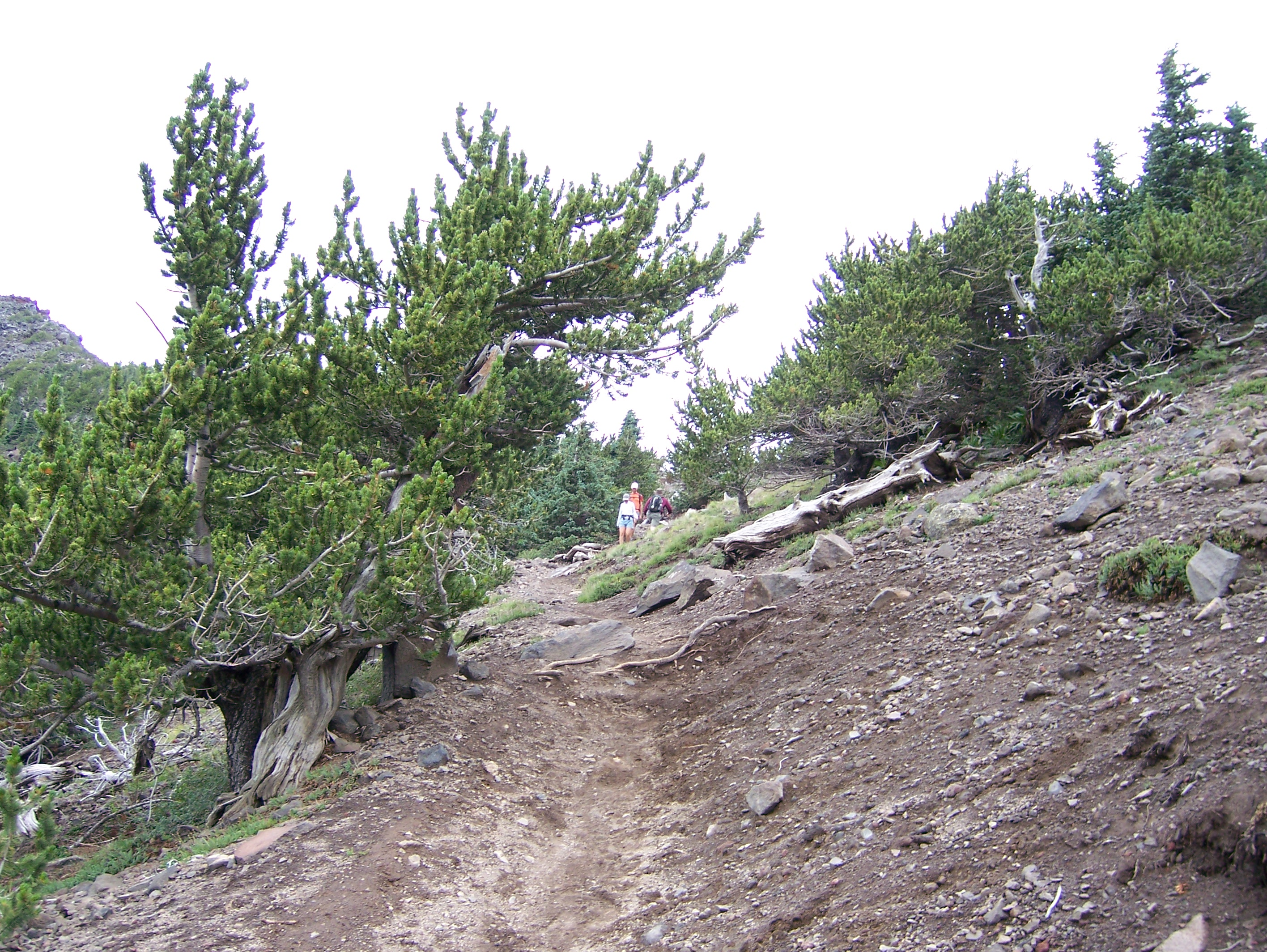 Stunted Pinus aristata krummholtz, Humphreys Peak, Arizona.